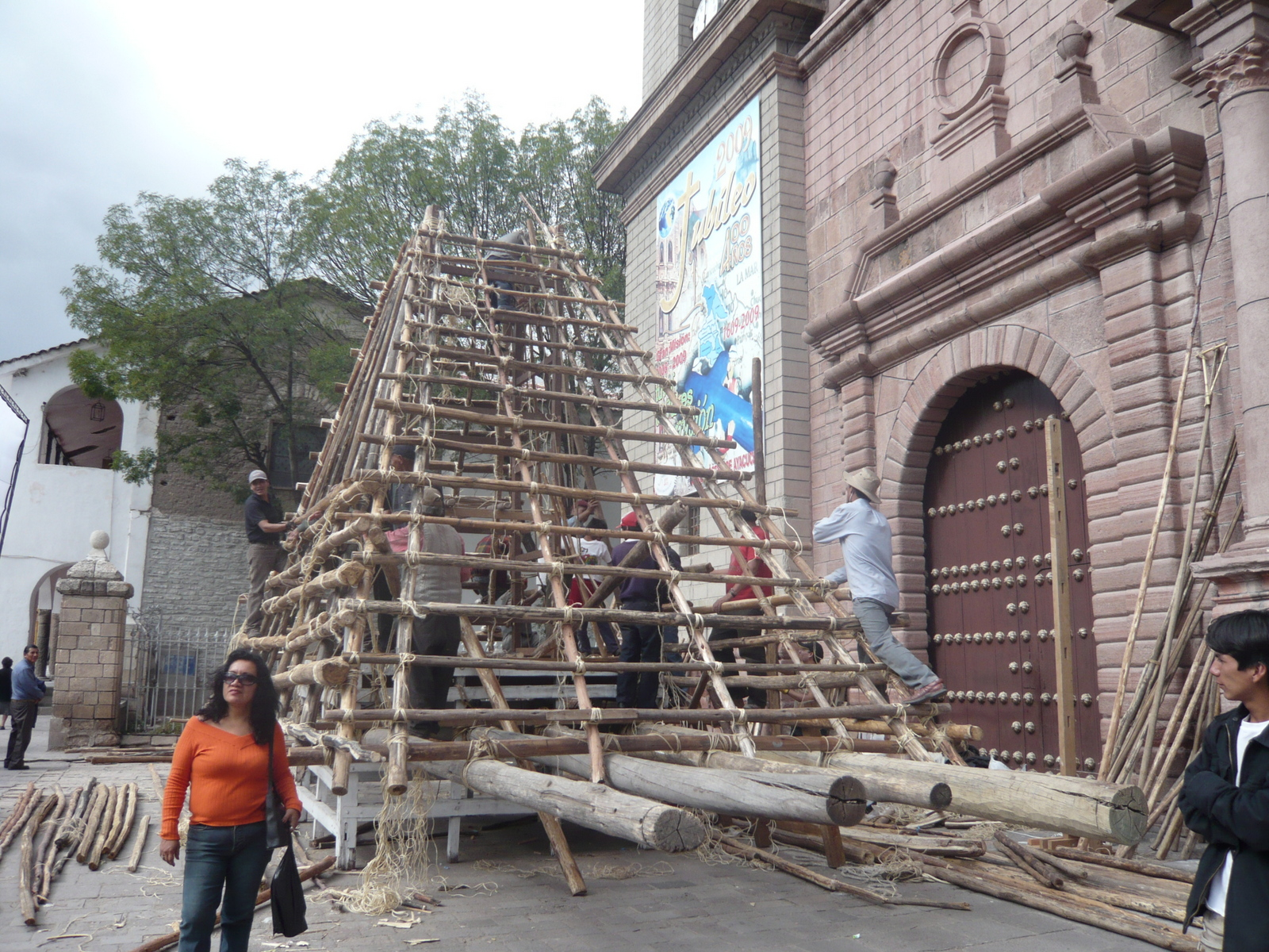 Photos of Ayacucho taken by E. Zambrano